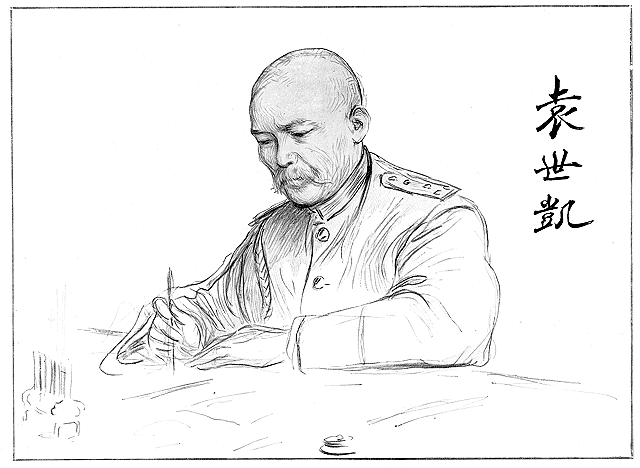 Chinese general and President of the Republic of China, Yuan Shikai